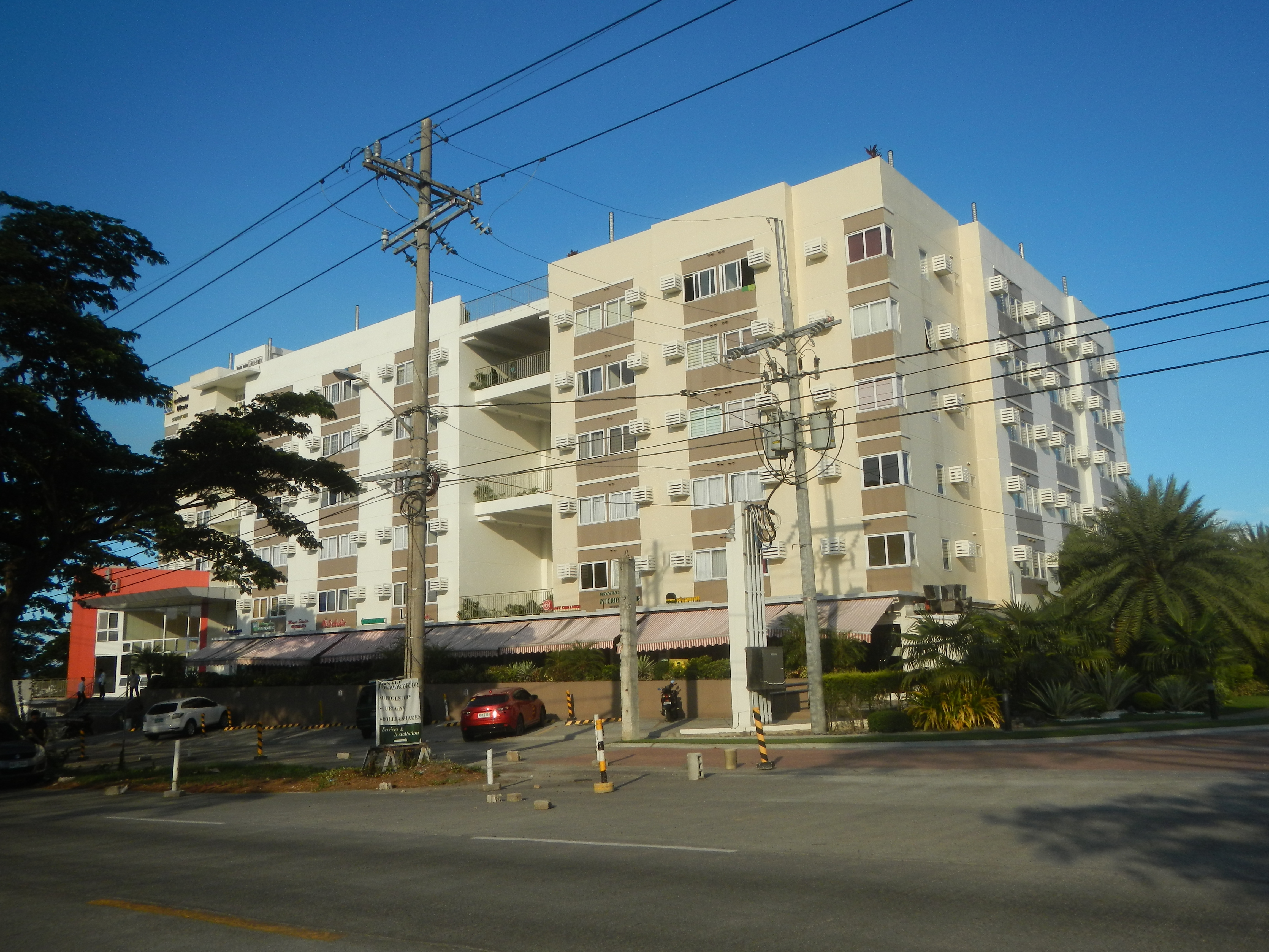 Ayala Westgrove Heights Ayala Land Ayala Westgrove Heights Saint Benedict Parish Church (Ayala Westgrove Heights, South Boulevard, Inchican, Silang, Cavite) Welcome monument of (Inchican) Silang, Cavite (Don Jose Bridge, Santa Rosa, Laguna) South Forbes Golf City (Inchican, Silang, Cavite) Microtel by Windham South Forbes (Inchican, Silang, Cavite) Scandia Suites (Inchican, Silang, Cavite) Destination Hotel South Forbes - Stanford Suites (Inchican, Silang, Cavite) Barangay Inchican 14°14'38"N 121°2'17"E Silang, Cavite and Santa Rosa, Laguna (Note: Judge Florentino Floro, the owner, to repeat, Donor Florentino Floro of all these photos hereby donate gratuitously, freely and unconditionally Judge Floro all these photos to and for Wikimedia Commons, exclusively, for public use of the public domain, and again without any condition whatsoever).